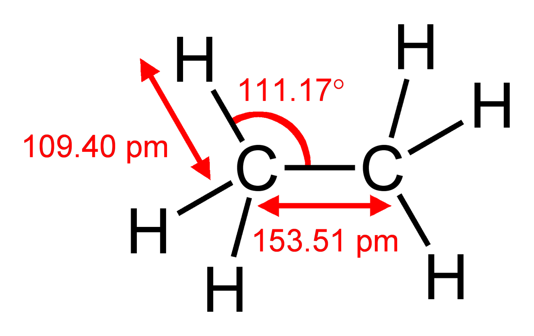 Structural formula of the ethane molecule, C2H6. In this staggered conformation, the molecule belongs to the D3d point group. Structural information (determined by microwave spectroscopy) from CRC Handbook, 88th edition.